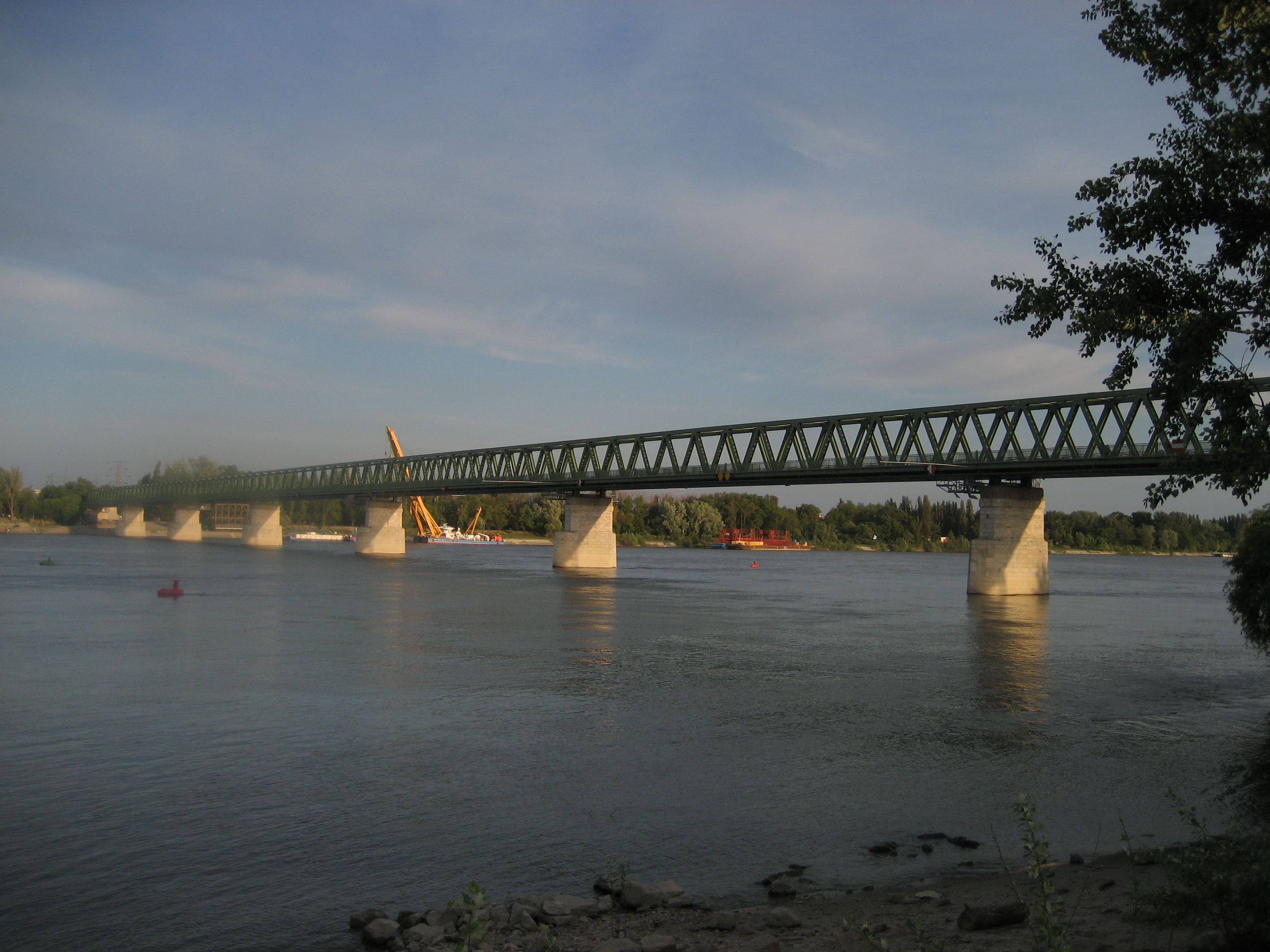 Újpesti vasúti híd ("Ujpest railway bridge", Budapest, Hungary)